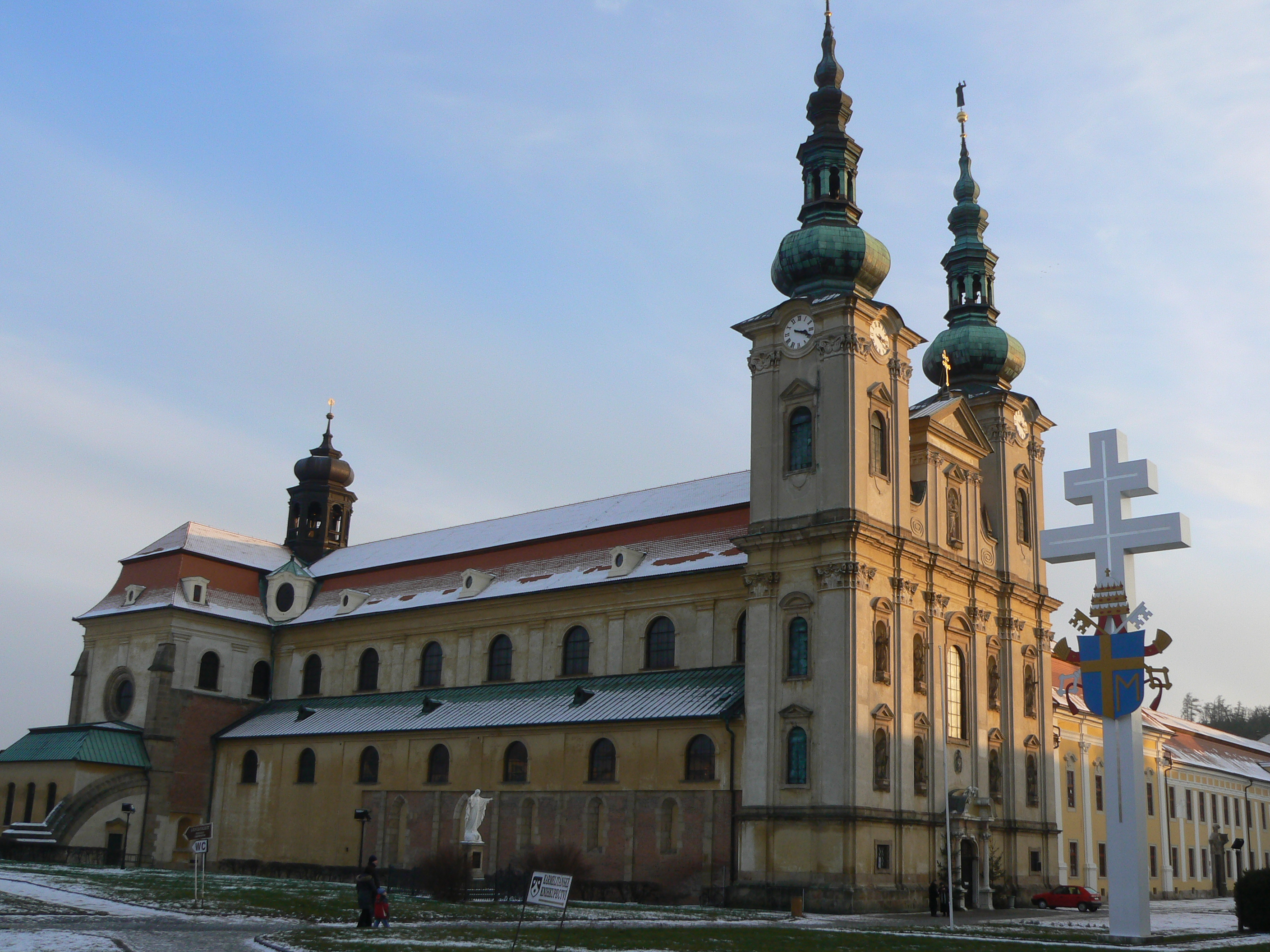 The Basilica of Assumption of Mary and St. Cyrillus and Methodius in Velehrad